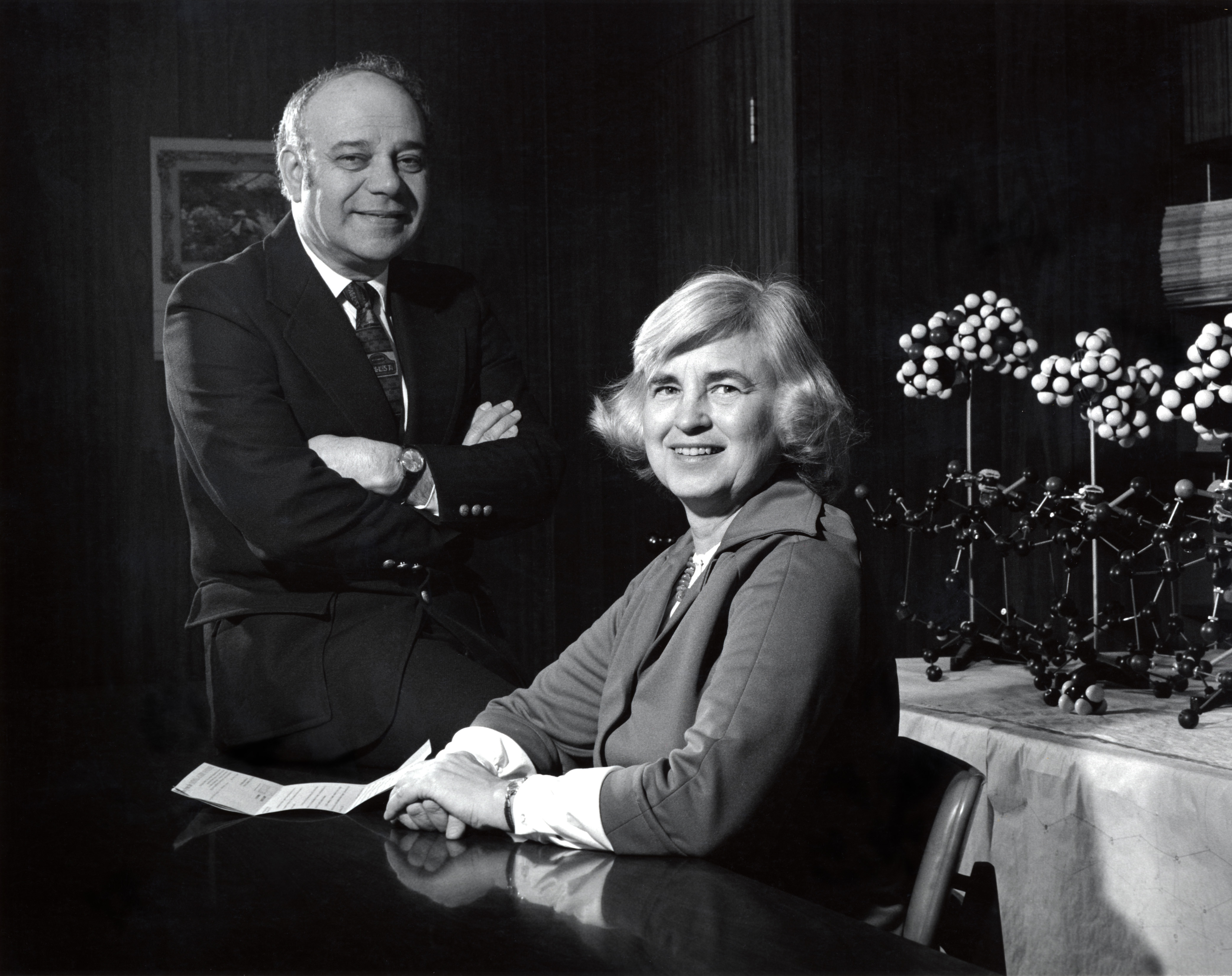 Dr. Jerome Karle (left) and Dr. Isabella Karle (seated). The couple worked as scientists for many years at the U.S. Naval Research Laboratory.